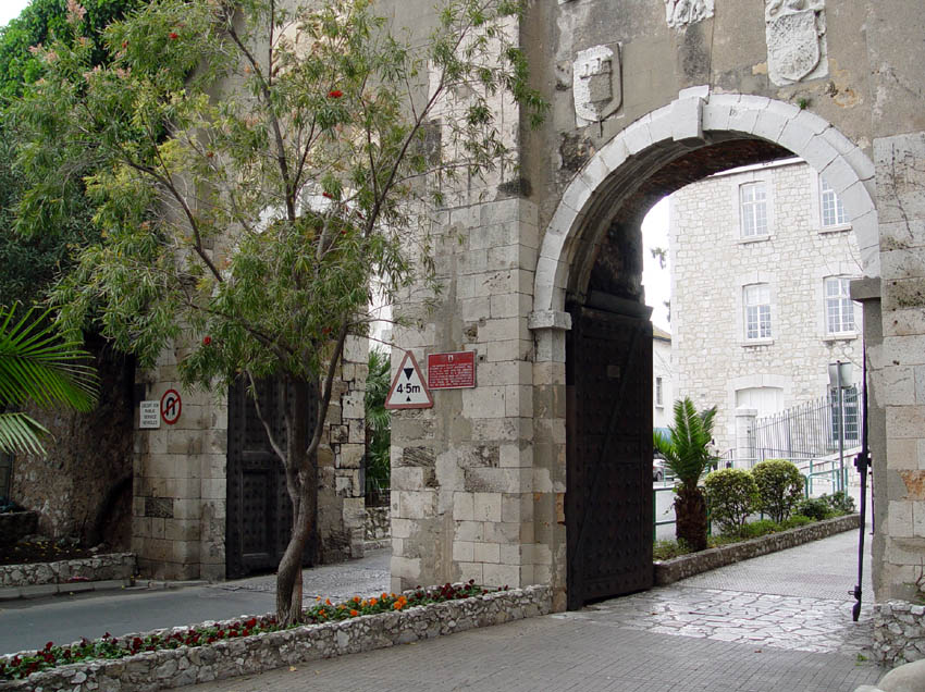 View of the south face of two of the Southport Gates, Gibraltar (Charles V Gate (Puerta de Carlos V) in the foreground).